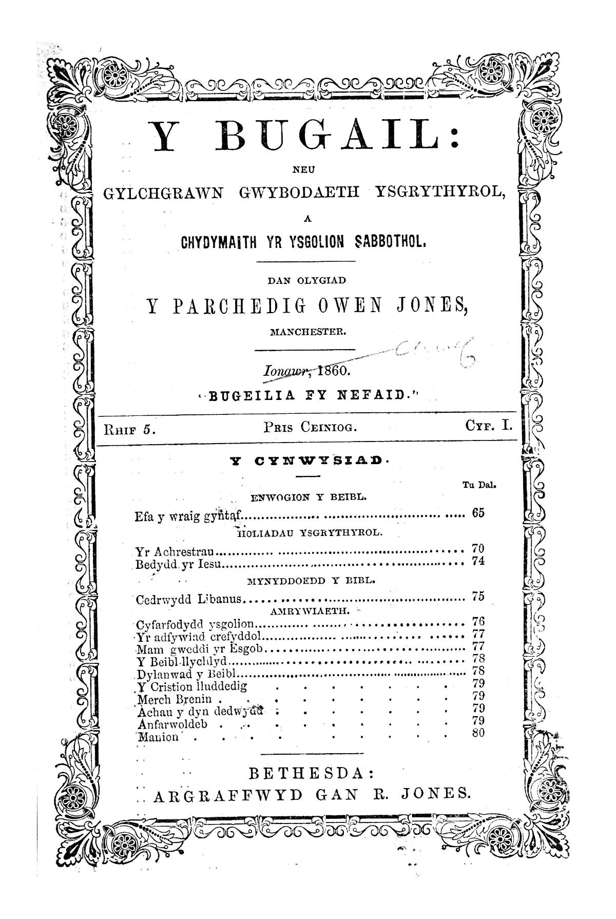 A Welsh language religious periodical that was intended for the Sunday Schools of the Calvinistic Methodists in north Wales. The periodical's main contents were religious articles and Sunday school lessons. Originally a monthly periodical from August 1860 onwards it was published bimonthly. The periodical was edited by the minister and author, Owen Jones (Meudwy MÃ´n, 1806-1889).